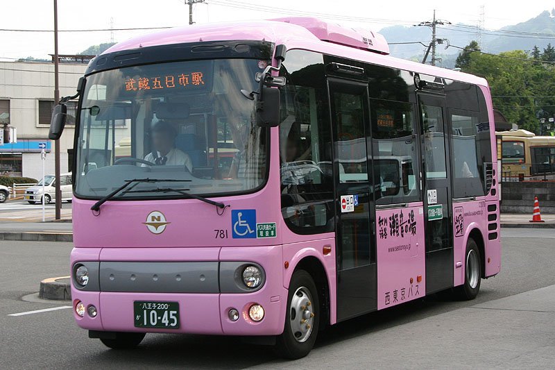 Nishi Tokyo Bus's route bus (Car No.C20781 / Hino Poncho ADG-HX6JLAE / J-BUS body) at Musashi Itsukaichi Station, Akiruno, Tokyo, Japan